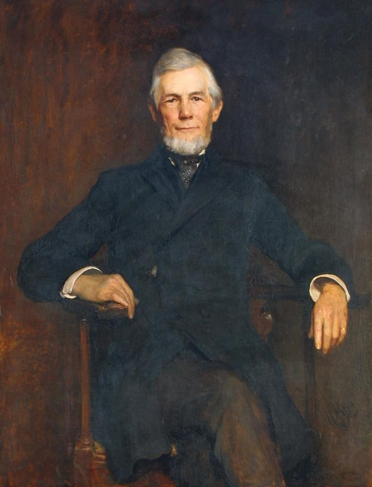 LINCOLN, JOHN LARKIN (1817 - 1891) Artist: Herkomer, Hurbert von (1849 -1914) Portrait Date: 1886 Medium: Oil on canvas